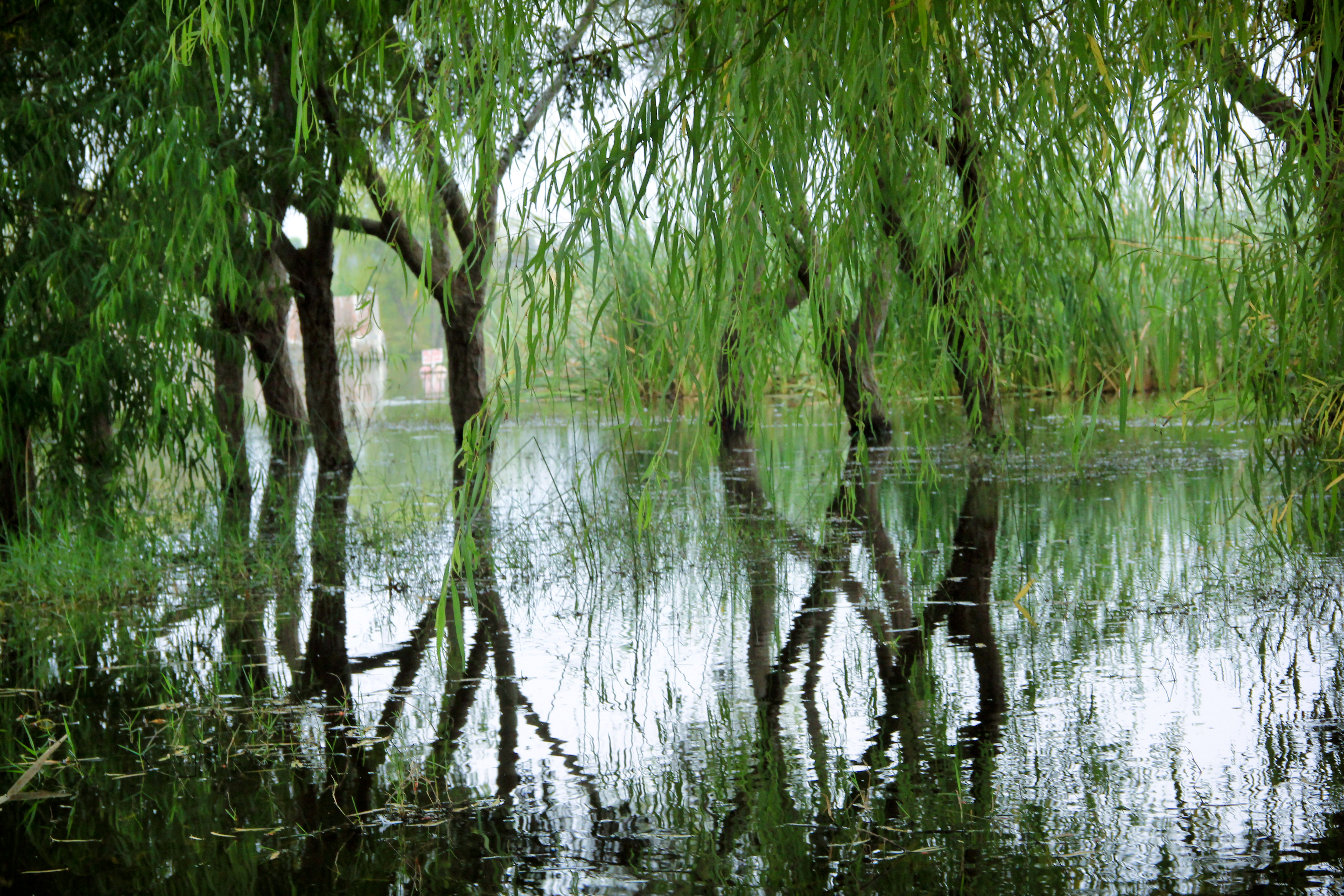 Laguna de Conache: Reflejos mágicos, Laredo - Trujillo